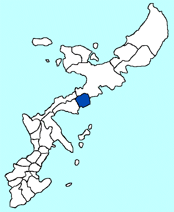 The location of Ginoza Village in Okinawa.